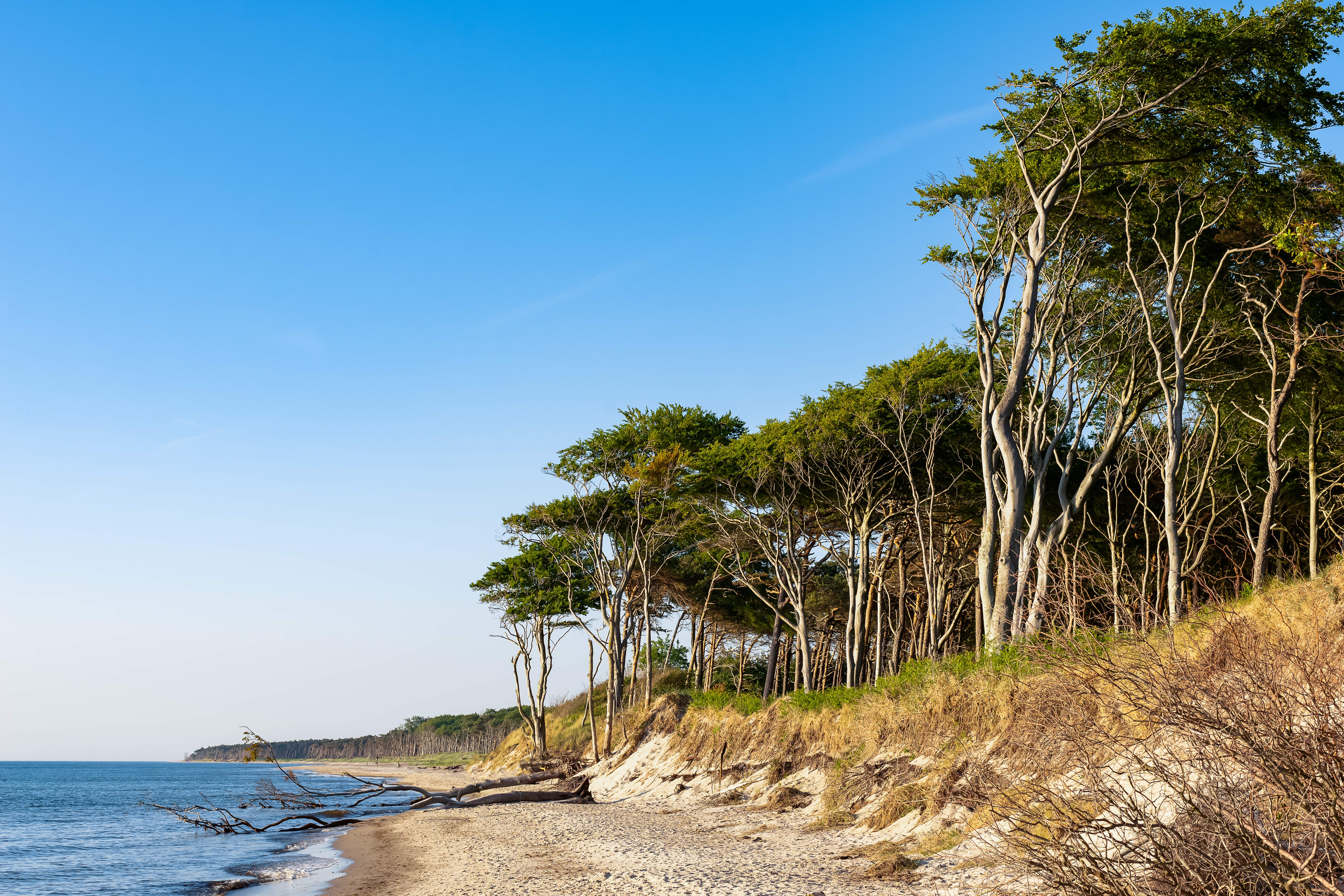 Strand in Mecklenburg-Vorpommern